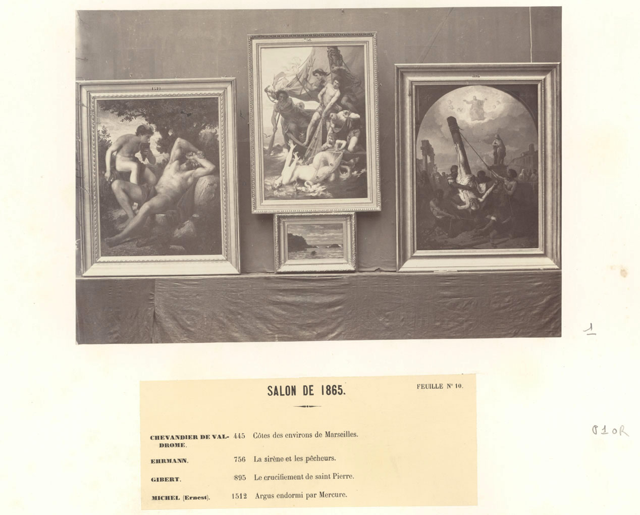 Salon de 1865